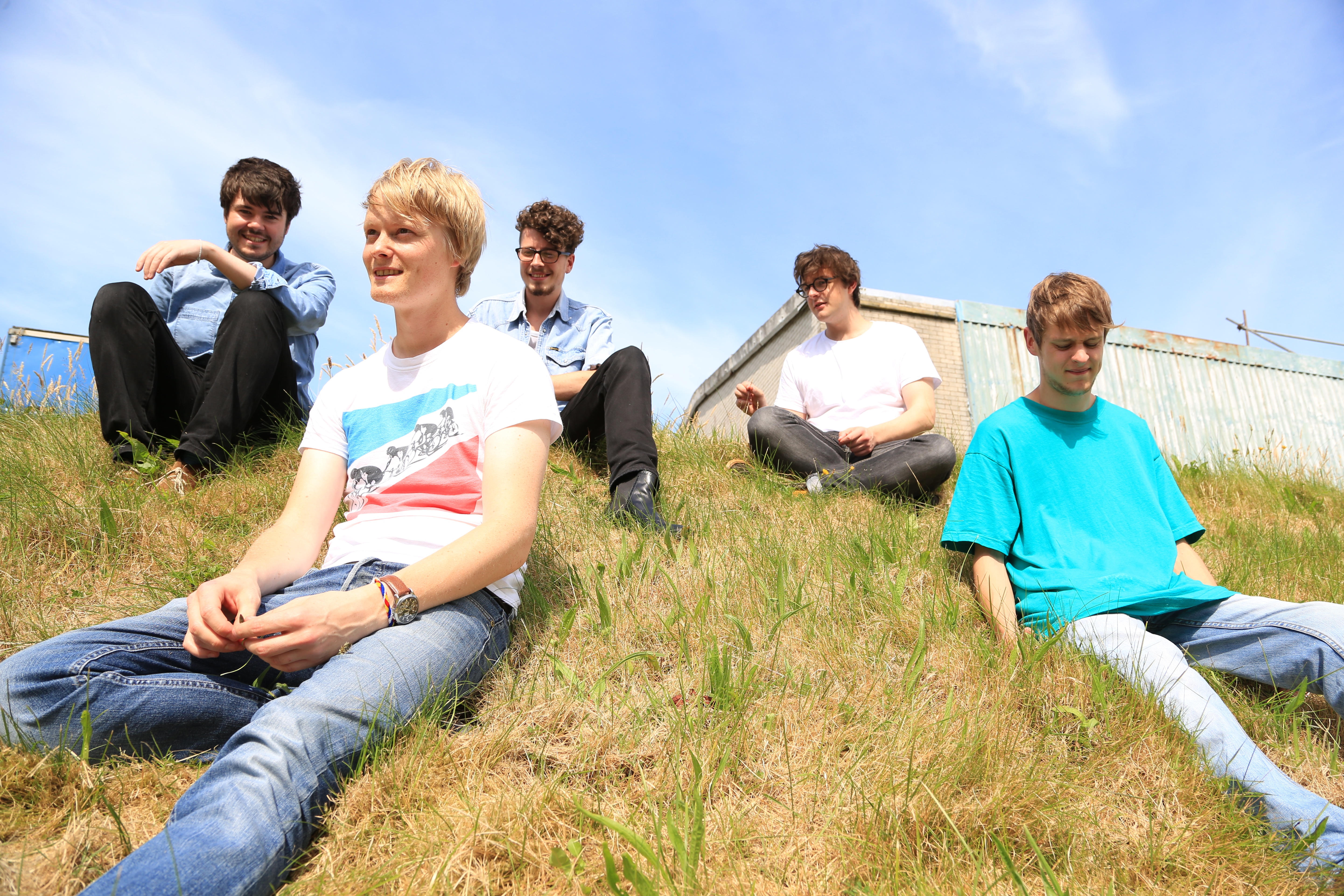 Palenco. A Welsh band.